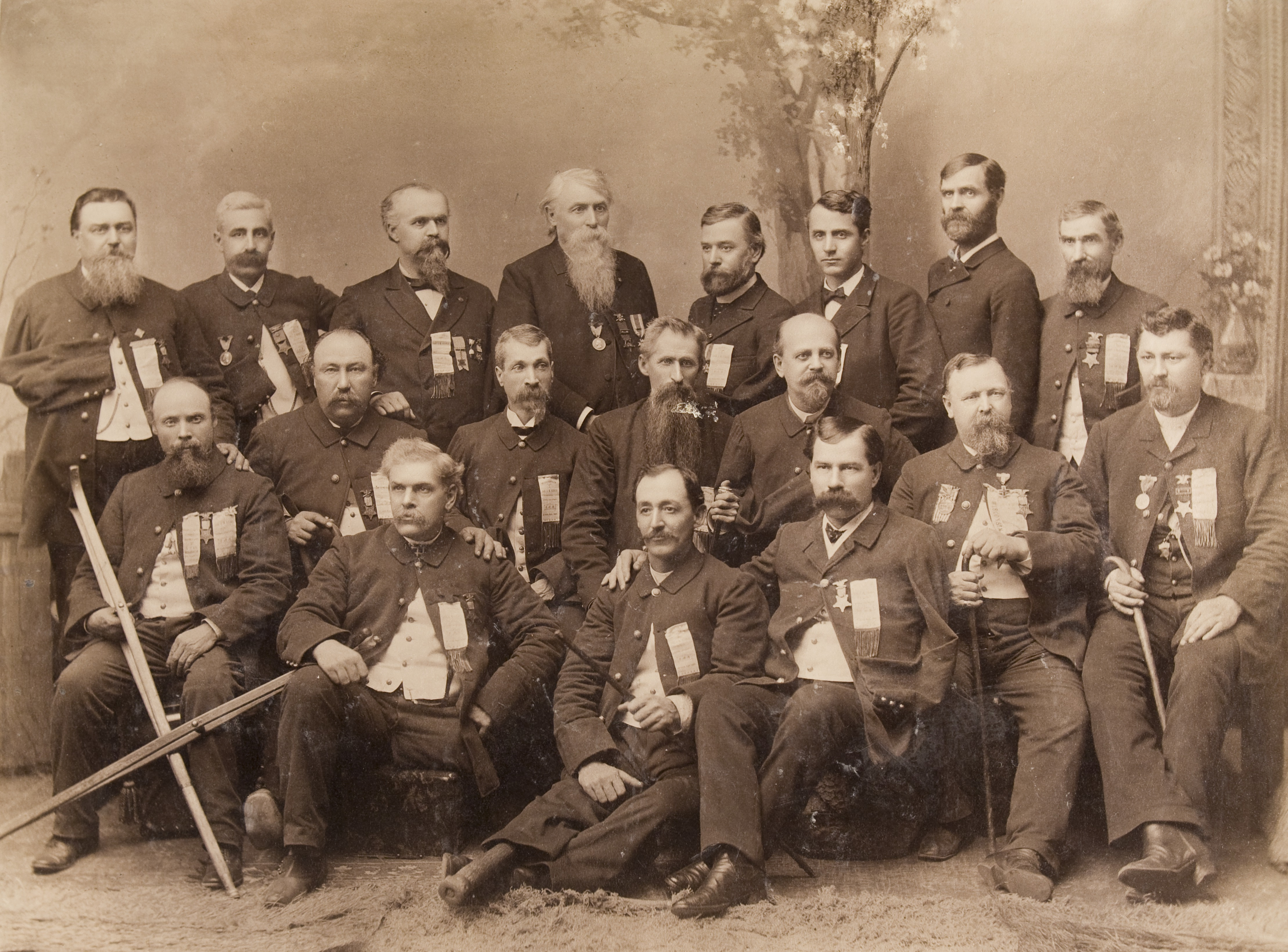 Studio portrait of 18 disabled Union veterans wearing medals and ribbons. Top row left to right: George W. Baker, Private Co. G, 19th Wis. Vol. Inf.; F.L. Phillips, Private Co. A., 2nd Wis. Vol. Inf.; Ernst G. Timme, Secretary of State, Private Co. C, 1st Wis. Vol. Inf; Gov. J.M. Rusk, Brevet Brig. Gen. U.S. Vol., Col. 25th Wis. Vol. Inf.; Henry B. Harshaw, State Treasurer, Lt. Co. E., 2d Wis. Vol. Inf.; Charles E. Estabrook, Attorney General, Private, Co. B., 43rd Wis. Vol. Inf.; J.B. Thayer, Supt. Public Instruction, Sergt., Co. D, 49th Wis. Vol. Inf., David Sommers, Private Co. I., 12th Wis. Vol. Inf. Second Row left to right: Peter Delmar, Private Co. F, 7th Wis. Vol. Inf; Henry Shetter, Private Co. D., 7th Wis. Vol. Inf.; W.H. McFarland, Private Co. B., 5th Wis. Vol. Inf.; W.J. Jones, Private Co. C., 16th Wis. Vol. Inf.; J.W. Curran, Pvt. Co. G., 5th Wis. Vol. Inf.; Mark Smith, Private Co. H., 7th Wis. Vol. Inf,; W.W. Jones, Capt. Co. A., 2nd Wis. Vol. Inf.; Eugene Bowen, Private Co. F., 92nd NY Vol. Inf.; Benjamin Smith, Lt. Cos. B and A, Q.M. 5th Wis. Vol. Inf.; Henry P. Fischer, Private Co. F., 2nd MO. Vol. Inf. Handwritten note below photo and printed names reads: "Governor J.M. Rusk of Wisconsin and Staff, all of whom (?) were veterans of the Civil War. Nearly all cripples with one arm or leg as the (illegible word) of their service. The Governor and staff attended the National Encampment of the Grand Army held in St. Louis September 1887 and presented this photograph in acknowledgment of courtesies received from this Commandery." Title: Governor Jeremiah M. Rusk of Wisconsin and staff of disabled Civil War veterans.